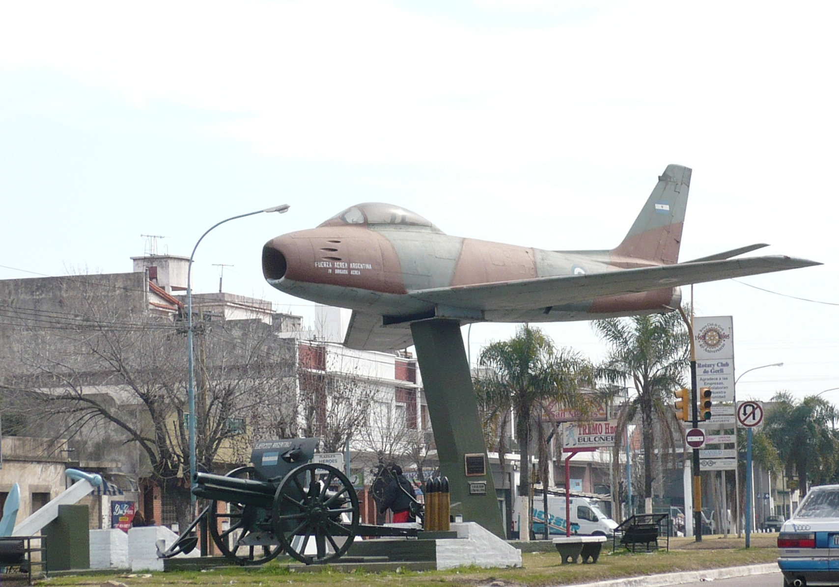 Argentine Air Force F-86F Sabre C-104 (c/n 191-842) at Malvinas War Monument in Lanus, Buenos Aires, Argentina